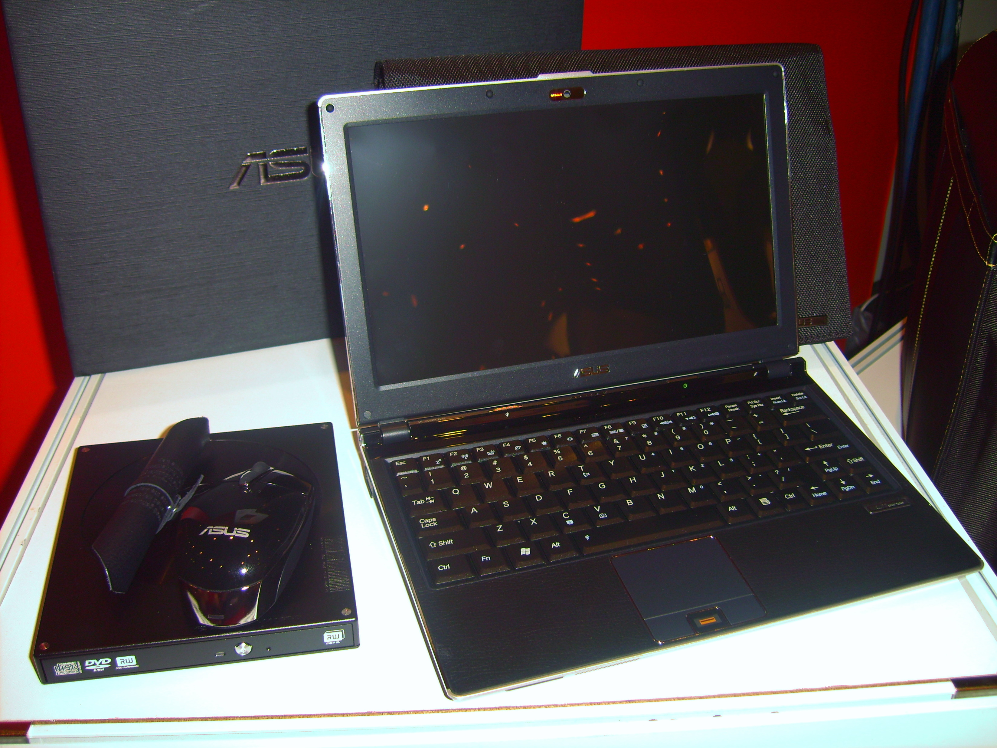 2007 COMPUTEX Taipei - Best Chioce: ASUSTeK U1F.